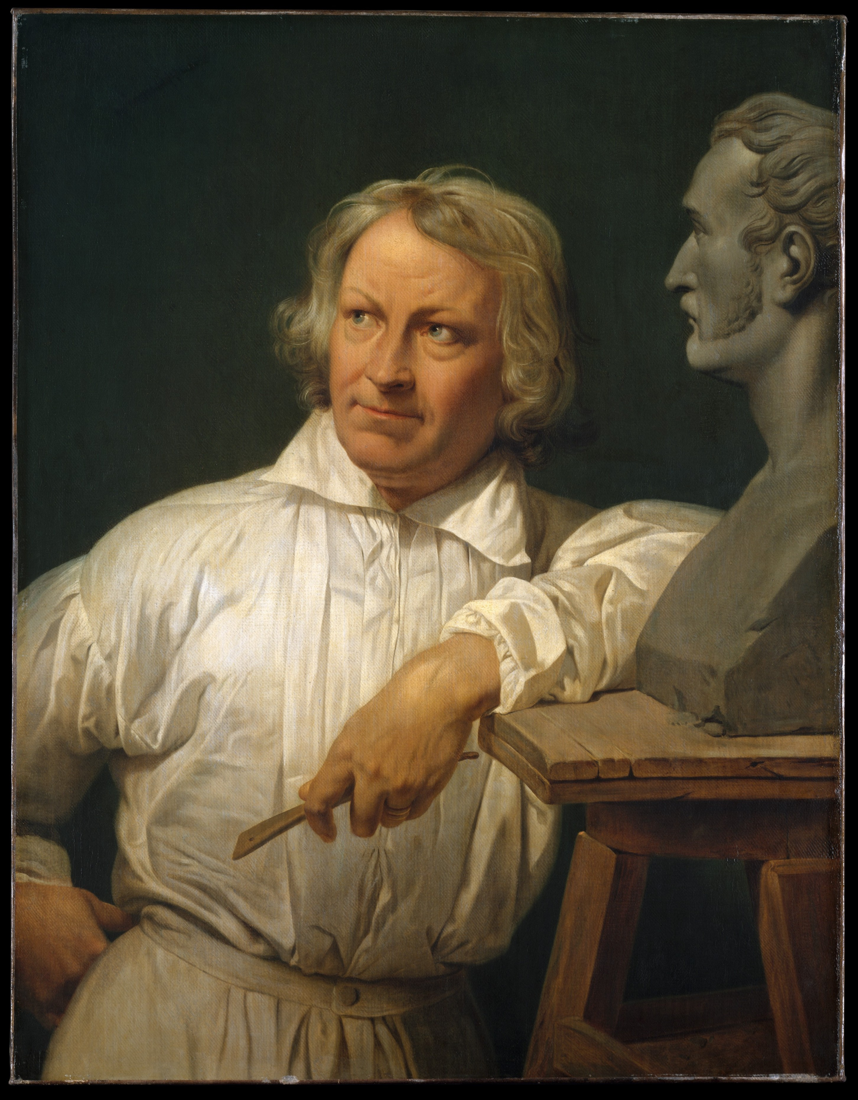 Bertel Thorvaldsen (1768–1844) with the Bust of Horace Vernet